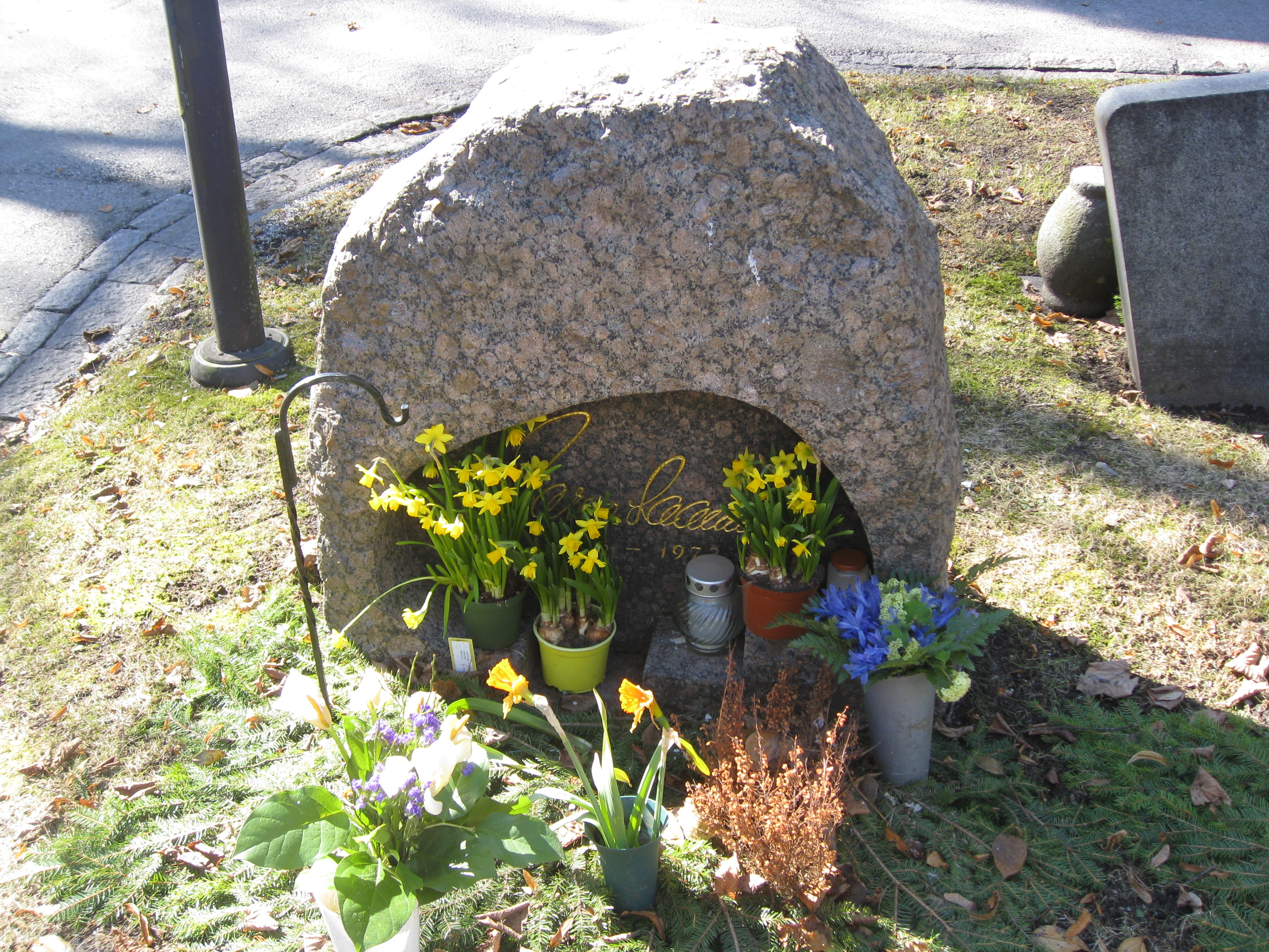 Finnish motorcycle racer Jarno Saarinen's (1945–1973) grave in Turku, Finland 2010.